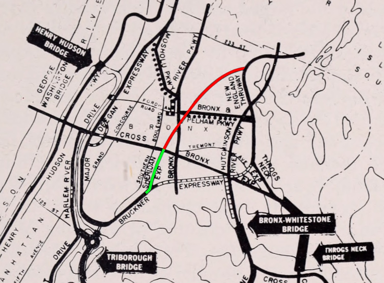 A cropped highway map from the 1964 NYC Parks Department book, "30 years of progress". Highlighted are the completed (green) and proposed (red) portions of the Sheridan Expressway (I-895) in the Bronx. The unfinished portion would have been built along Boston Road (US Route 1) northeast towards the New England Thruway near Co-Op City.